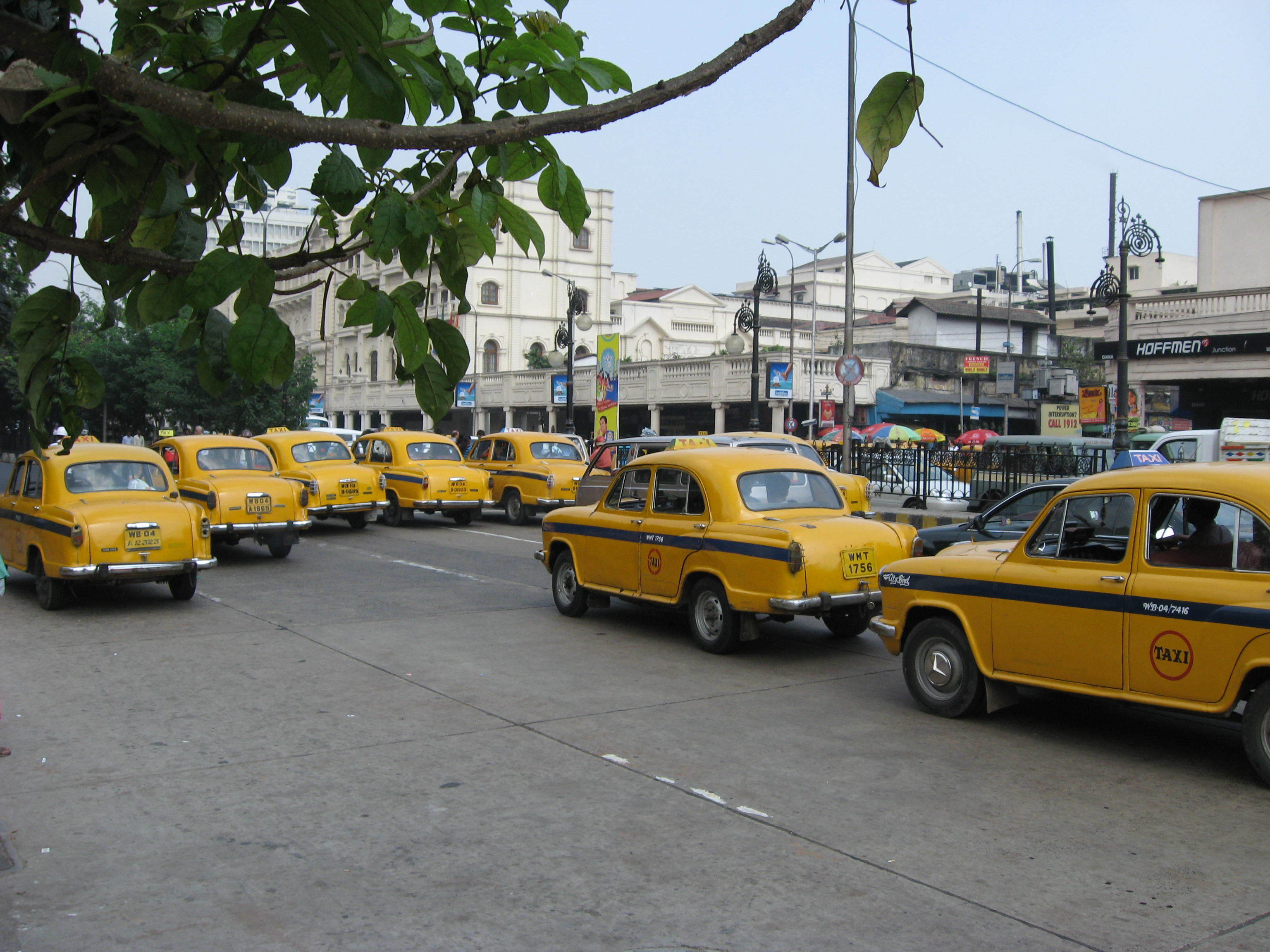 I have shot this photo as Esplanade Area in Kolkata